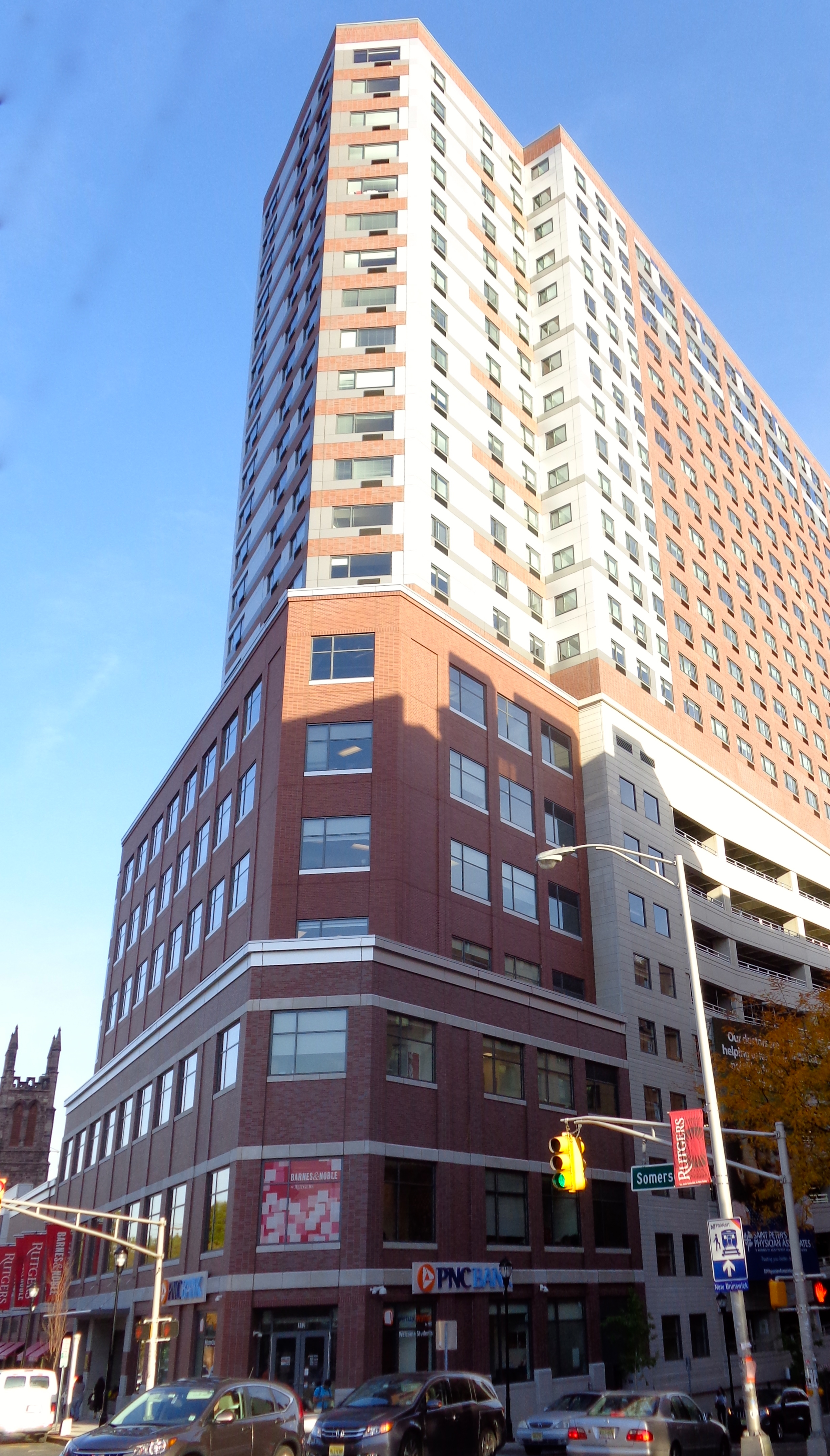 The Gateway/Vue at New Brunswick Station